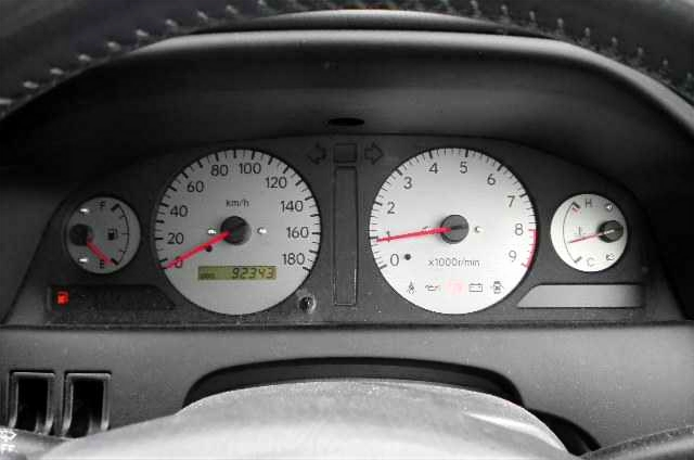 Carina GT stock dashboard features white dials and the rpm gauge redlines at 8000rpm. The stock JDM speedometer shows a maximum speed of 180kmp/h (according to Japanese rules) but this car is cable of reaching speed up to 215kmp/h without any modifications to the engine or any changes in the ECU.